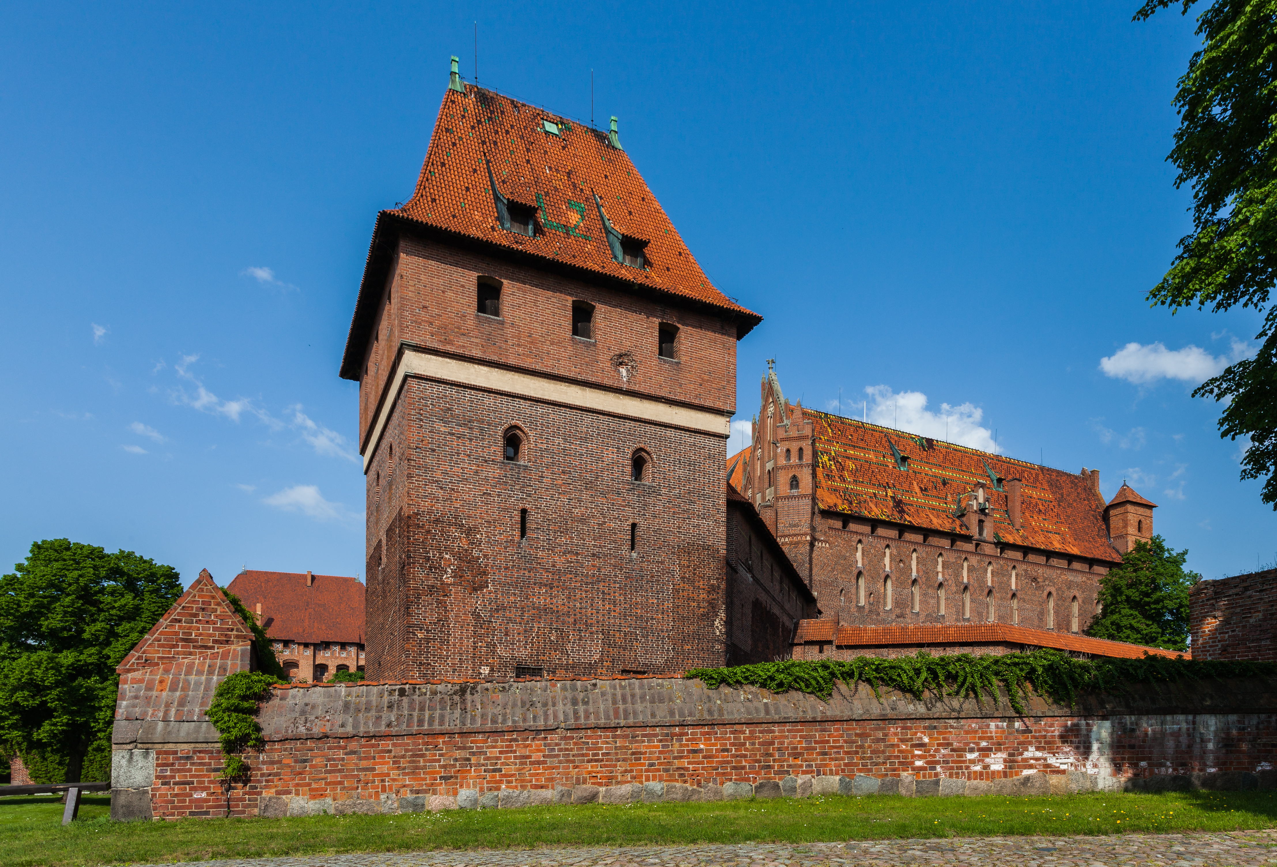 Malbork Castle, Poland